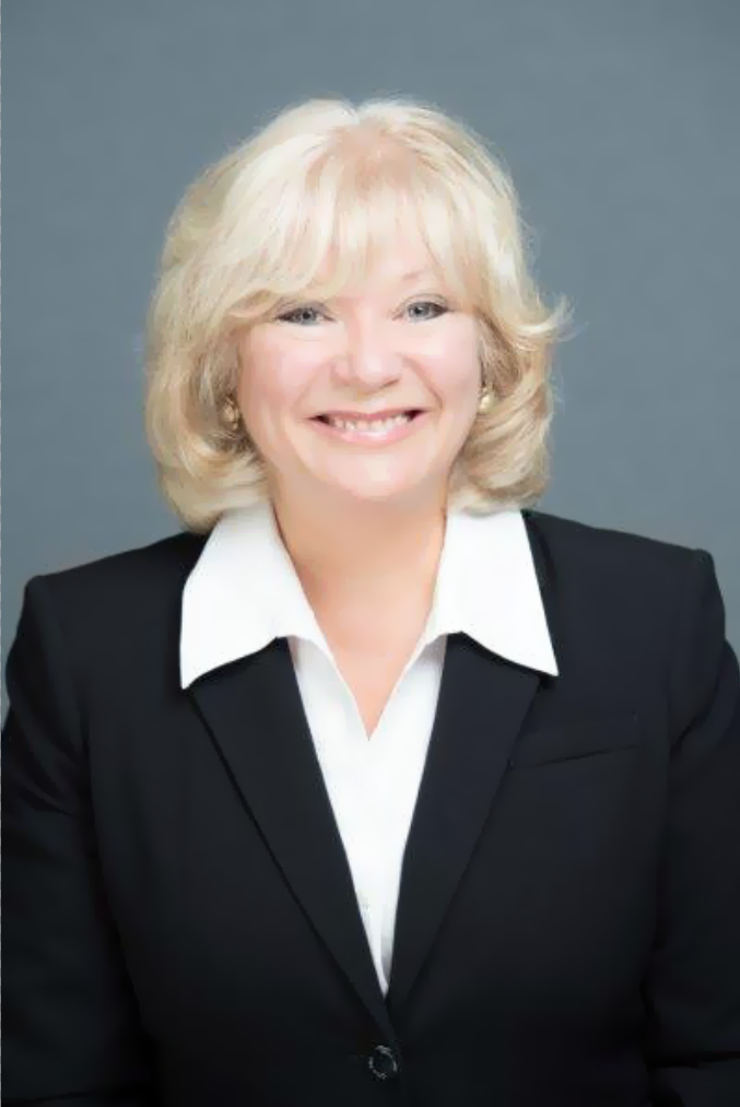 A photo of Doreen Steidle taken in 2015